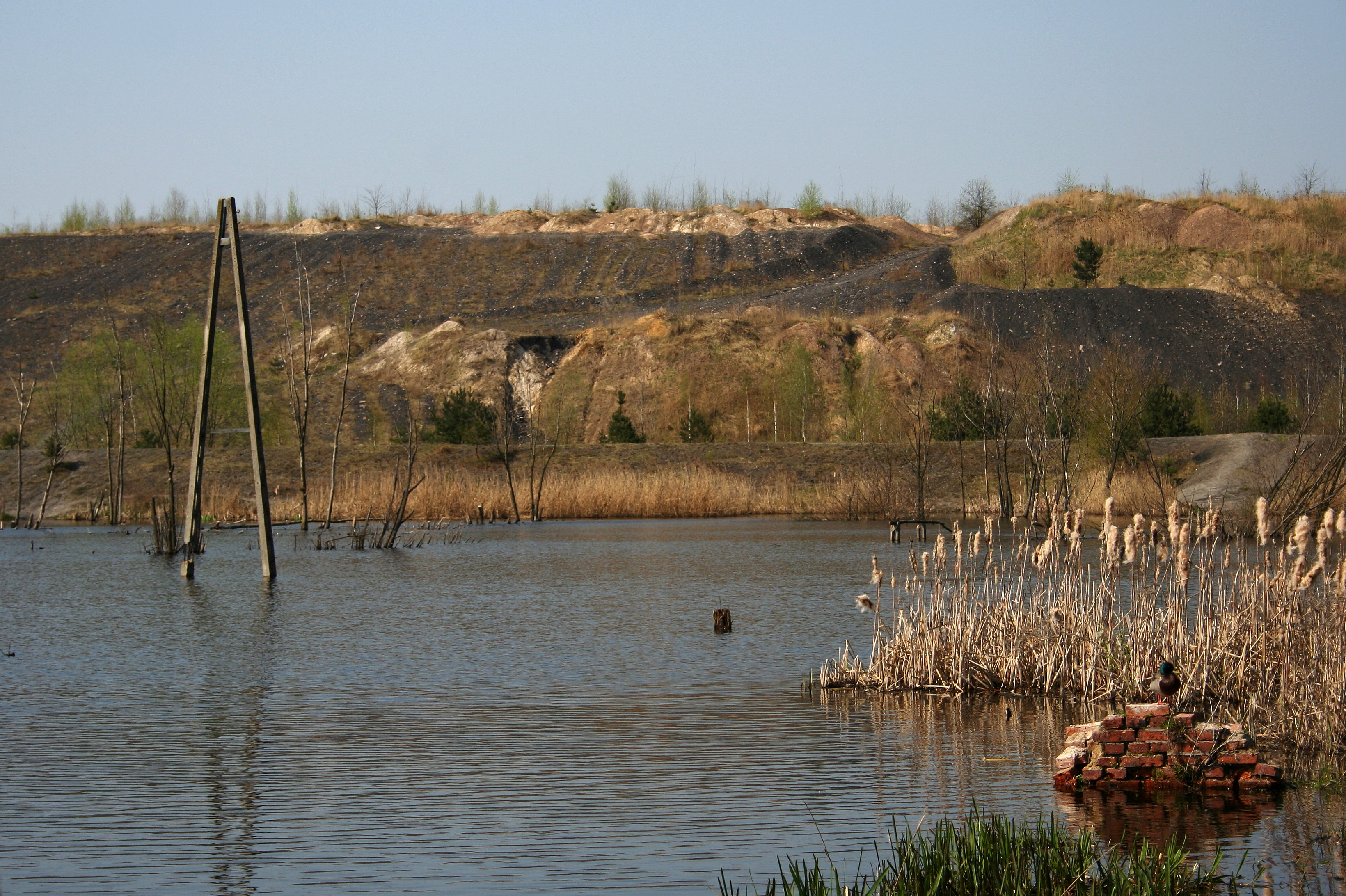 Pond in Borowa Wieś, district of Mikołów Poland